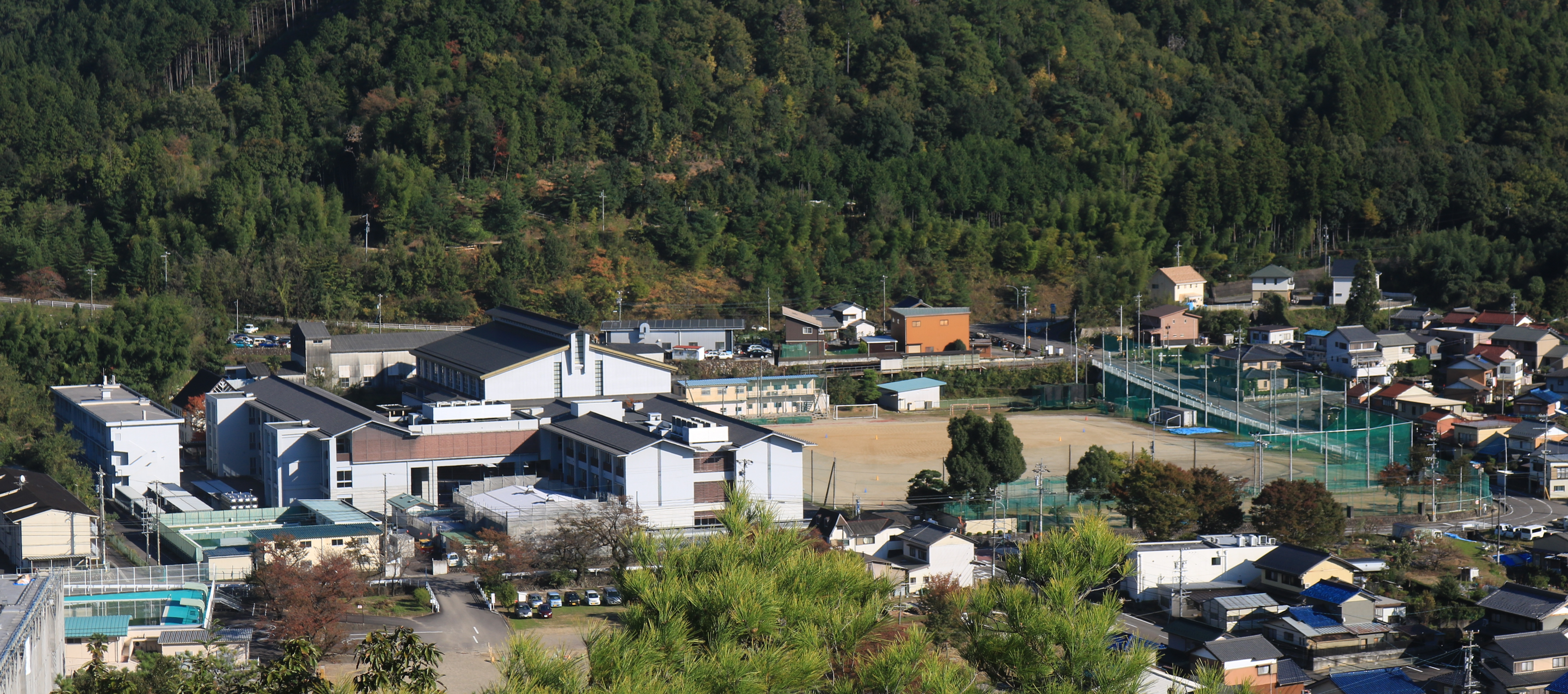 Gifu Prefectural Mugi High School seen from Mount Ogura in Mino, Gifu Prefecture, Japan.